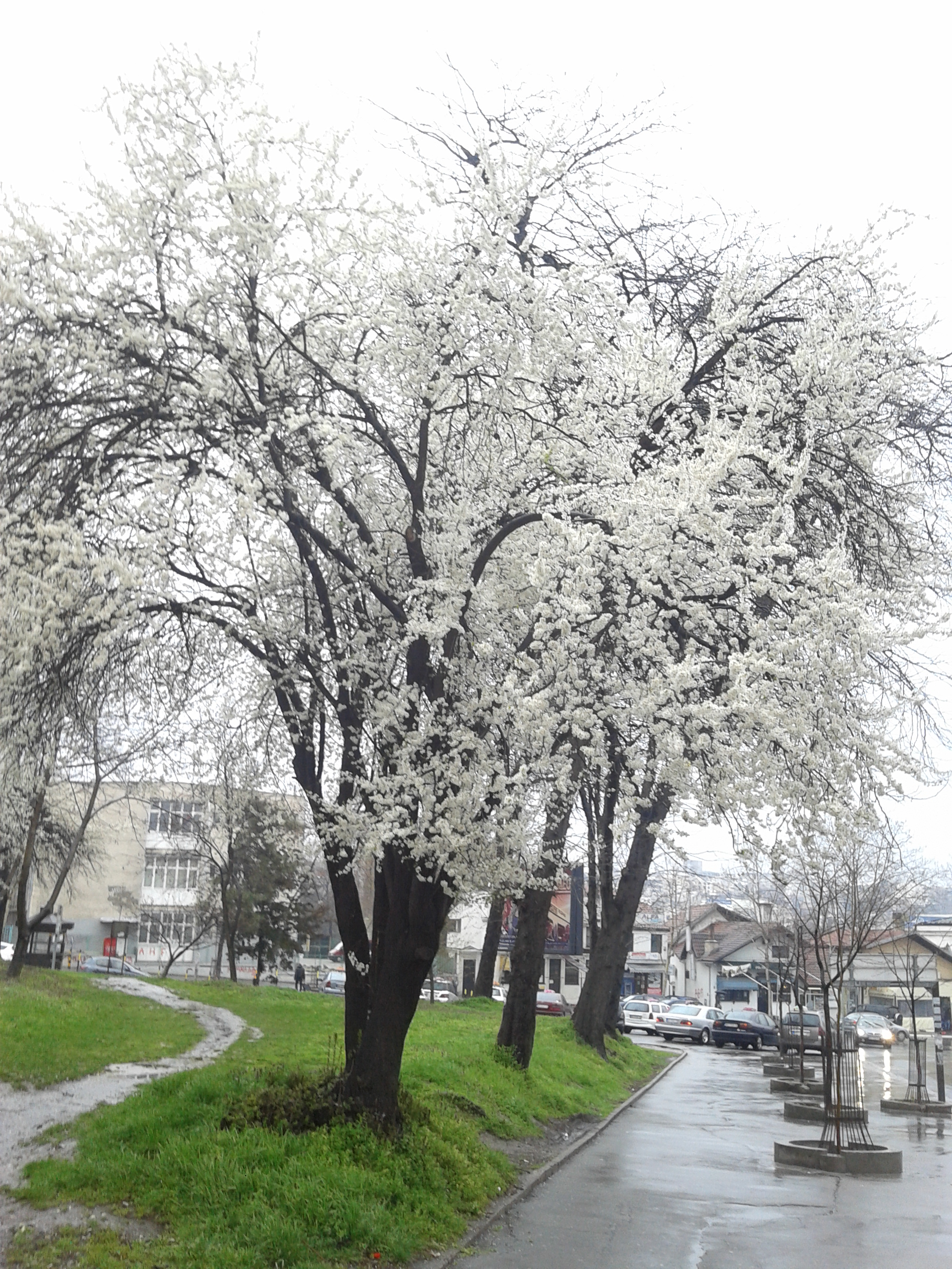 Drvenasta biljka